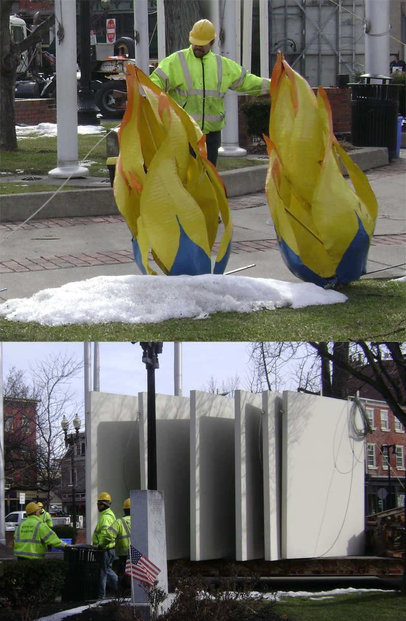 Images of the assembly of the Peace Candle of Easton, Pennsylvania.